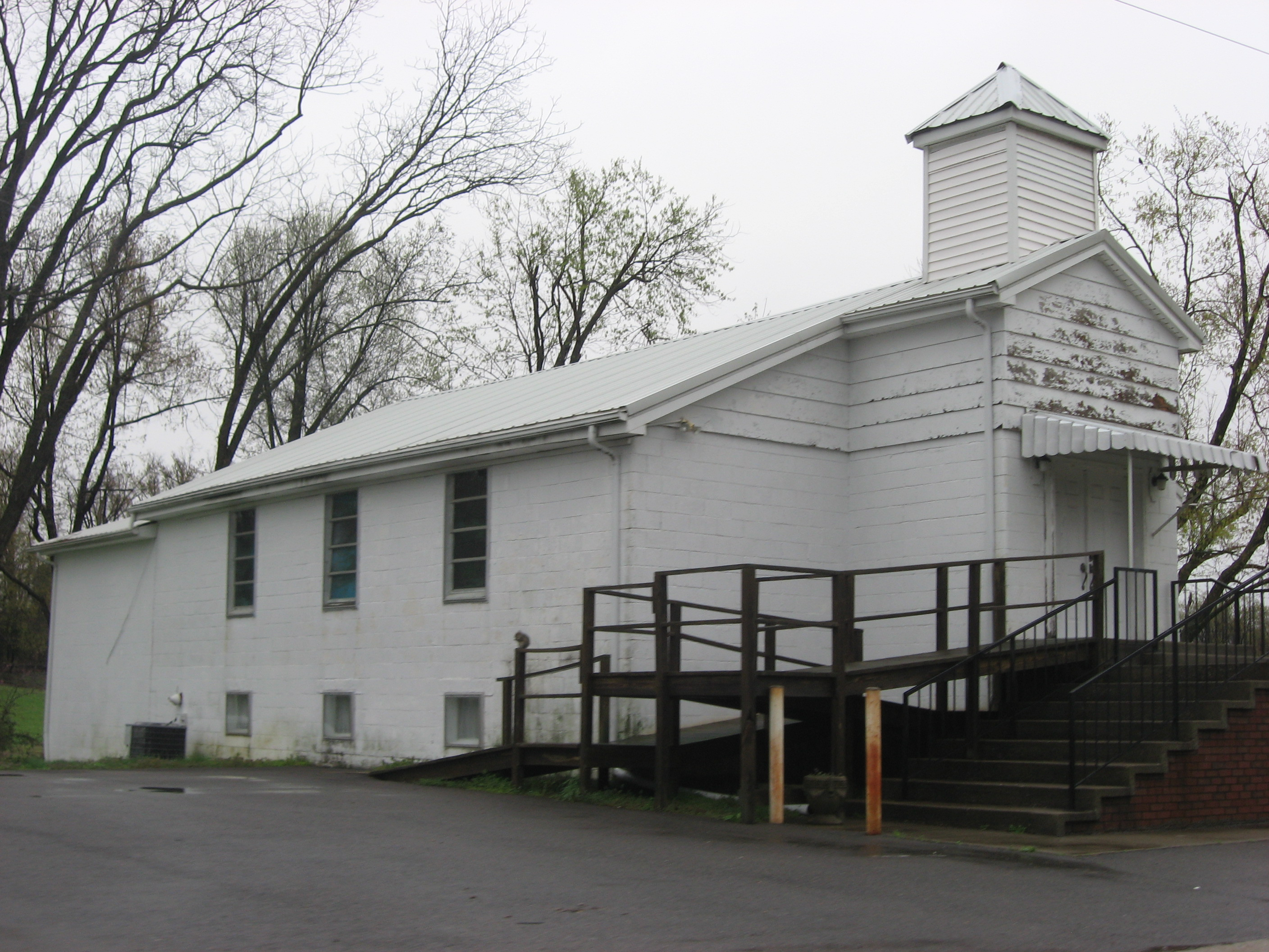 Front and western side of the Calvary Missionary Baptist Church, located at New Liberty in Jefferson No. 4 Precinct, Pope County, Illinois, United States.